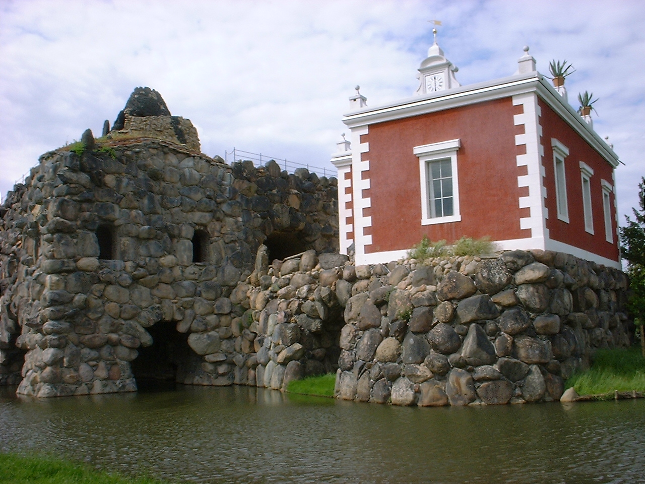 Rock island „Stein“ with an artificial volcano and the classicistic Villa Hamilton, Wörlitz park in Saxony-Anhalt, Germany